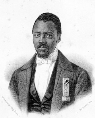 French abolitionist and politician Louisy Mathieu (1817-1874). Official portrait for the French National Assembly (1848).